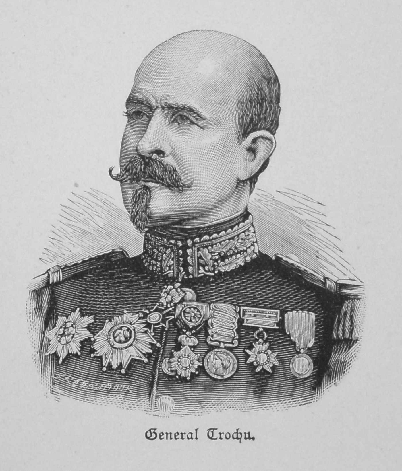 general Trochu